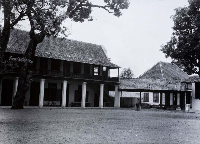 The 'Landsarchief' at Batavia